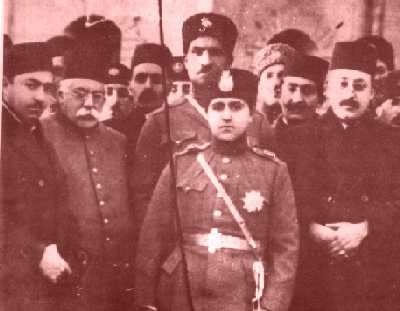 Reza Khan, Ahmad Shah, Abdol Hossein Farmanfarma at the end of World War I (1918)